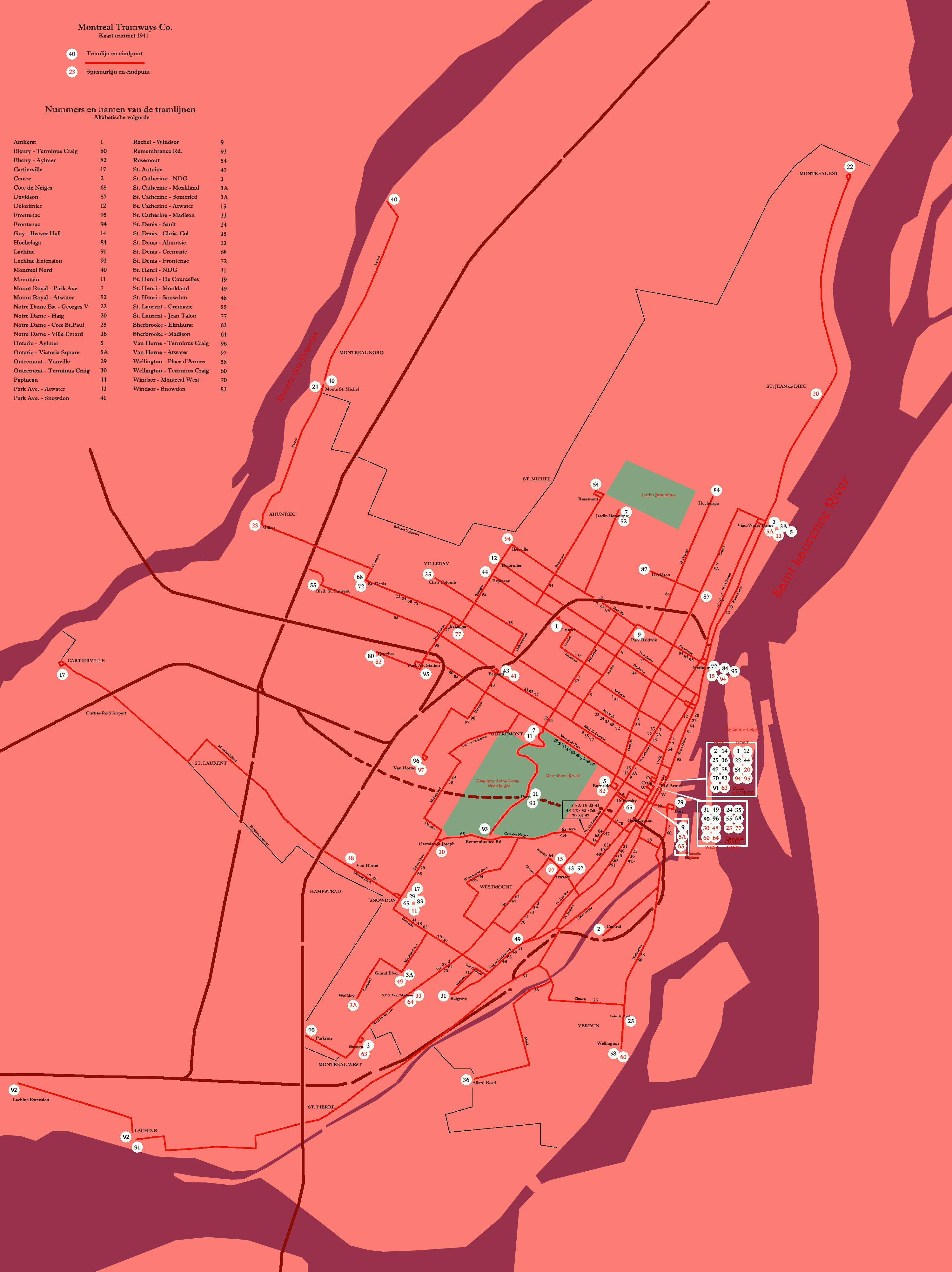 Map of the Montreal tram net work 1941